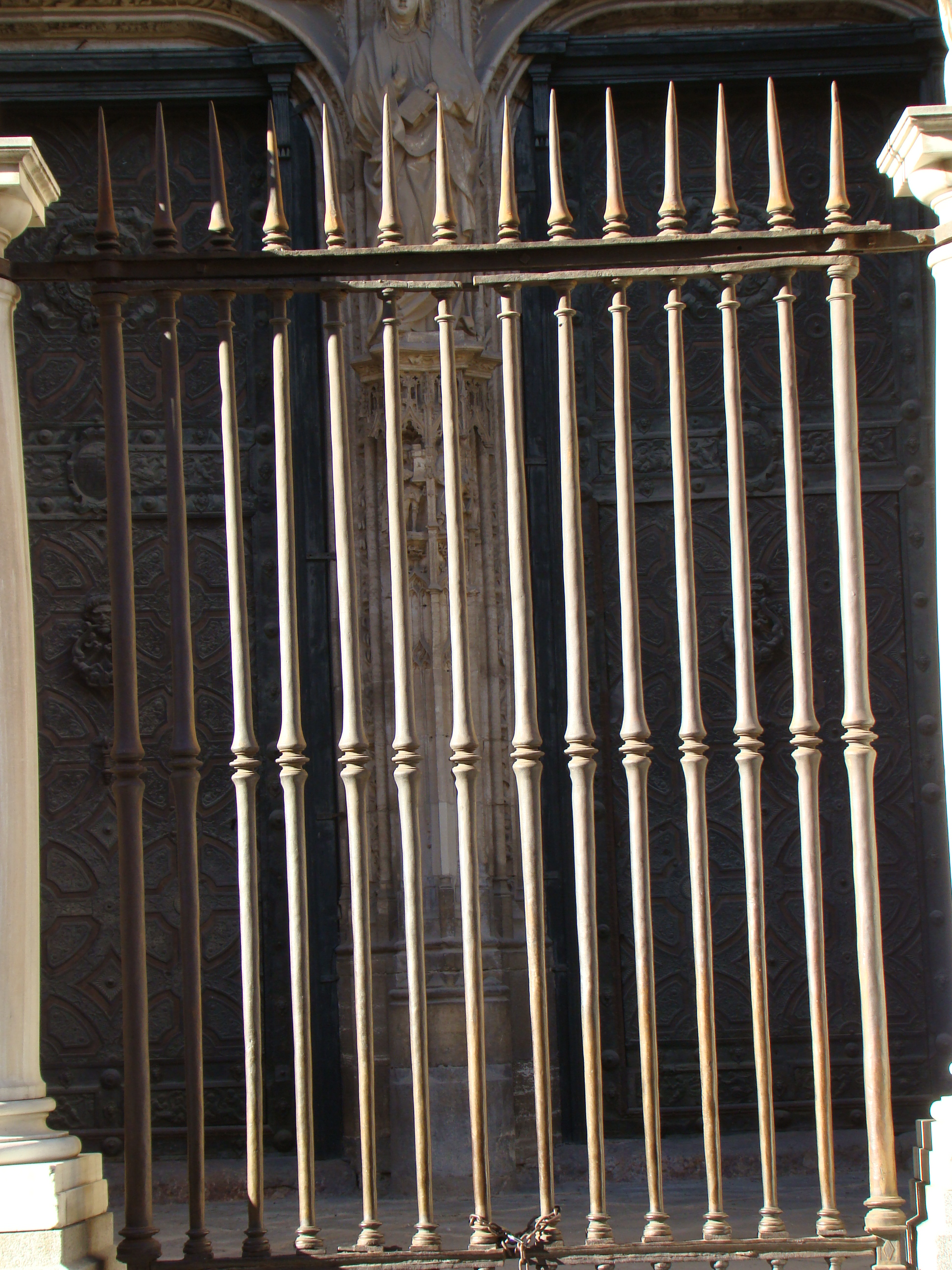 Exterior grid at the south facade of the Puerta de los Leones in the cathedral of Toledo, Spain. The artist was Juan Álvarez de Molina, from Úbeda (Jaén).